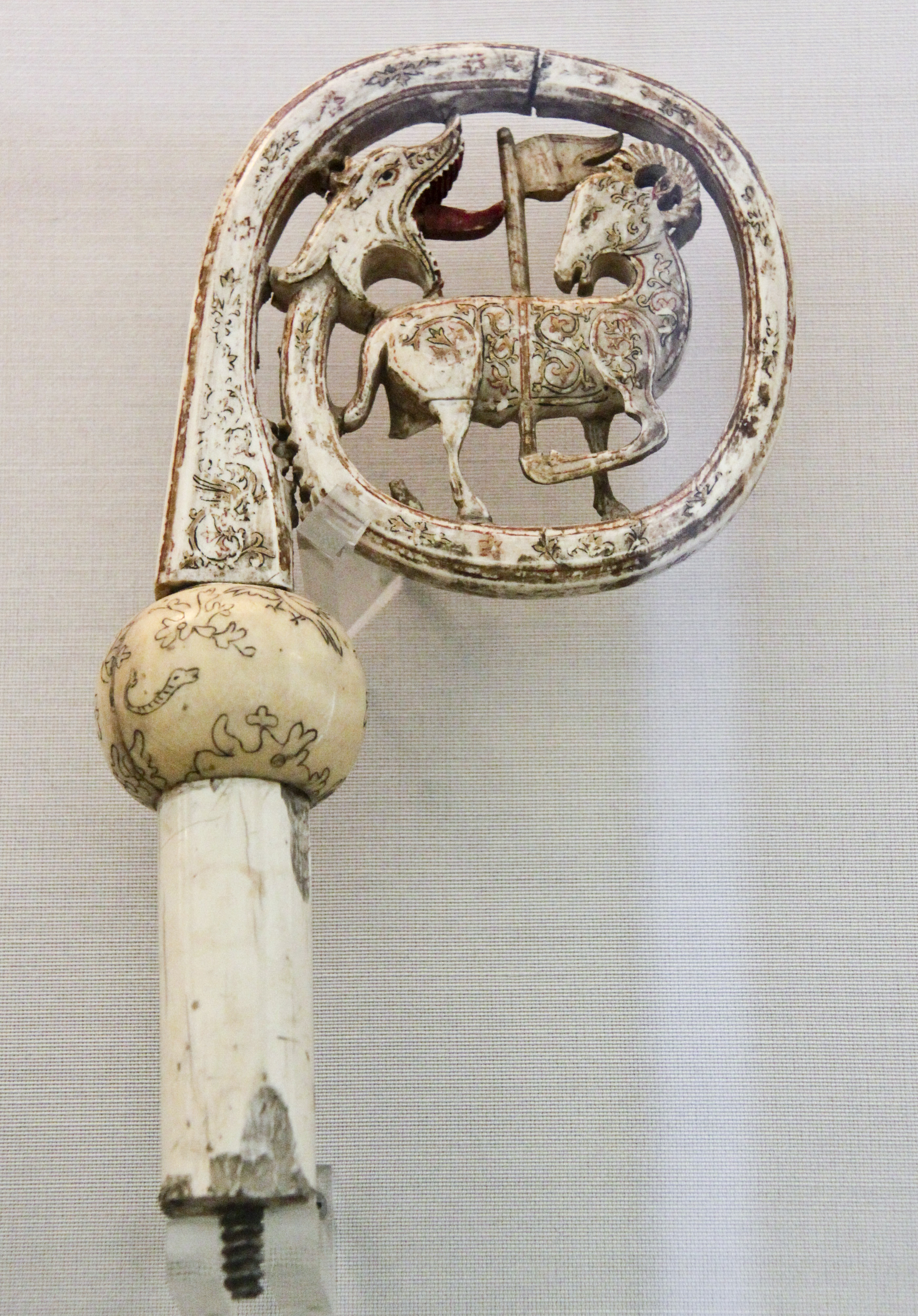 Crosier, 12th century, possibly Sicily (?) Italy. In the collections of the Hermiatge Museum in Saint Petersburg